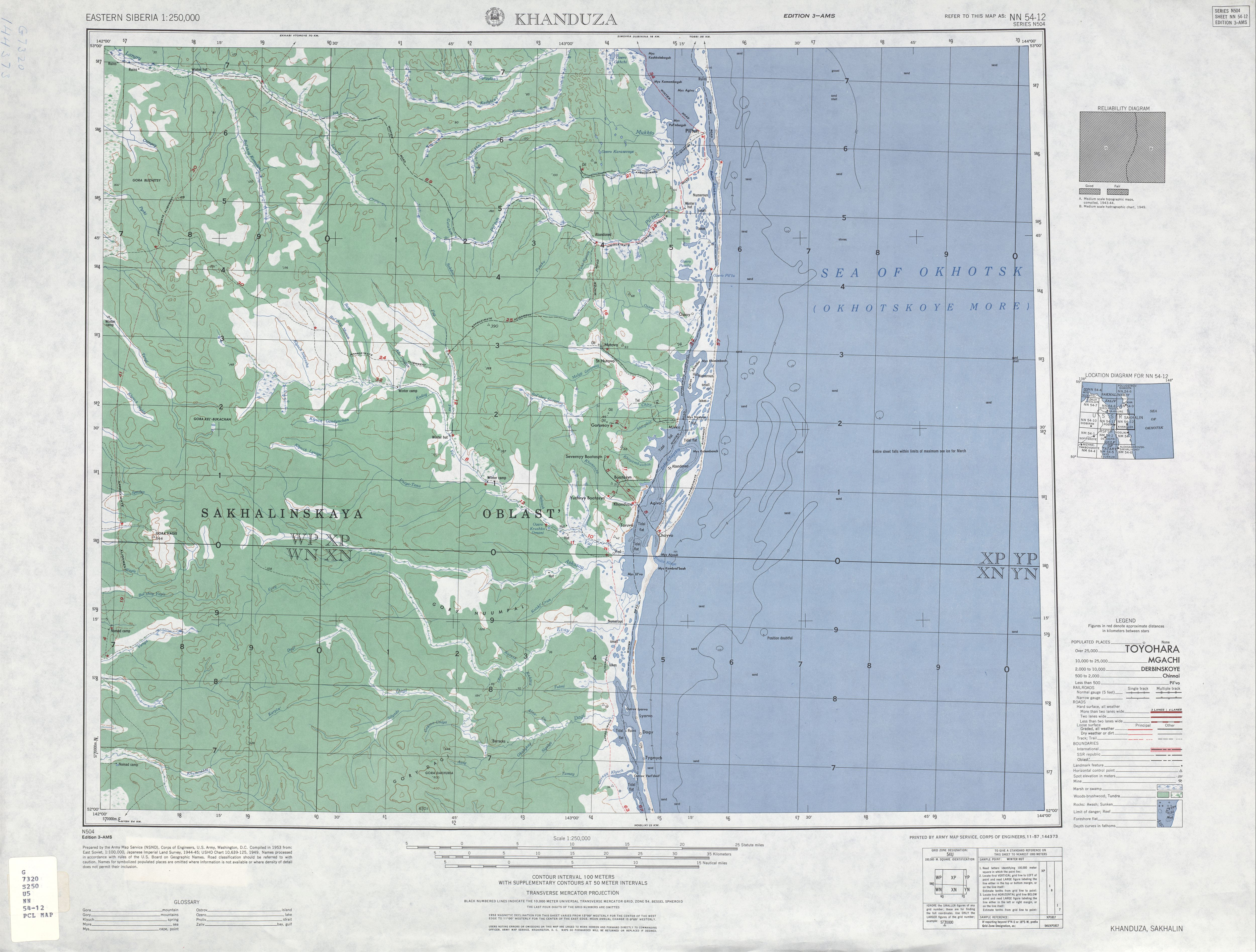 List from Eastern Siberia AMS Topographic Maps. Series N504, U.S. Army Map Service, 1947